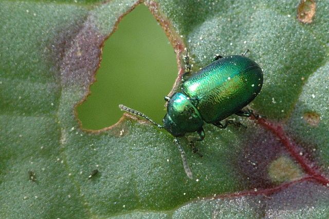 Picture taken in Commanster, Belgian High Ardennes . Species: Gastrophysa viridula